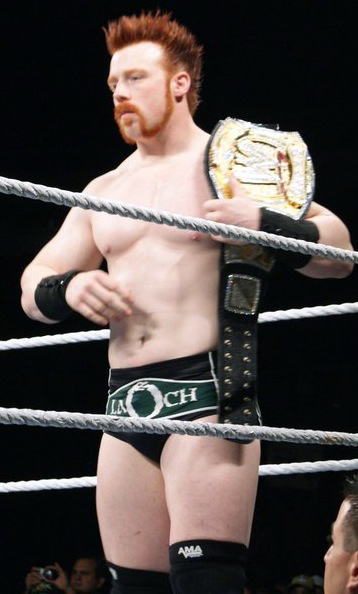 Sheamus in a WWE ring